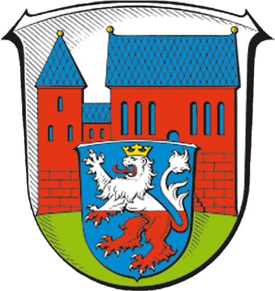 Coat of Arms of Vöhl